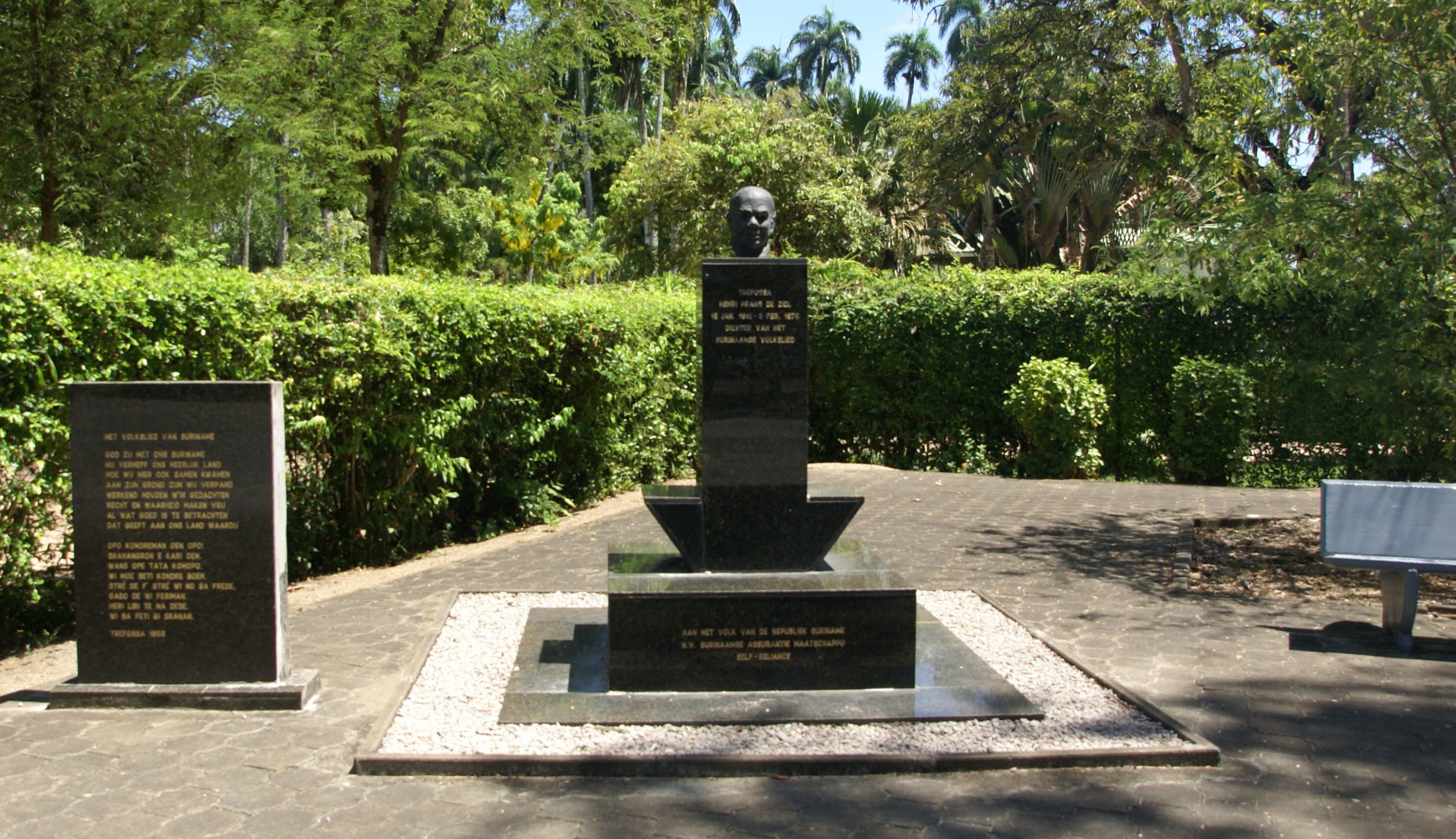 Bust of Trefossa, Kleine Combeweg, Paramaribo, Surinam. By Erwin de Vries, 2012.